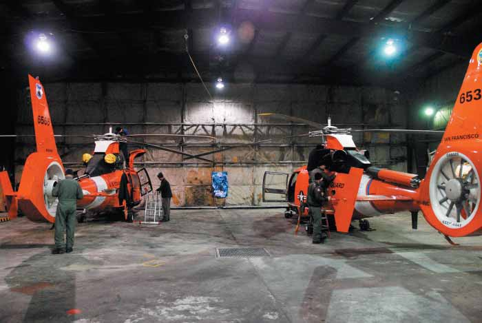 BARROW, Alaska—Crews from Air Stations Kodiak, Alaska and San Francisco perform maintenance on two HH-65C Dolphin helicopters taking part in the Coast Guard’s first Arctic exercise, July 27, 2008. The Coast Guard is developing a holistic approach to logistics (including maintenance, supply, sustainment, life cycle support and training) based on the successful policies and processes used by the aviation community. (U.S. Coast Guard photo by PA1 Kurt Fredrickson)